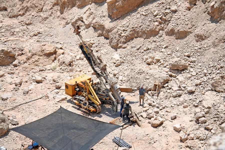 water drilling in Qumeran Valley, Israel